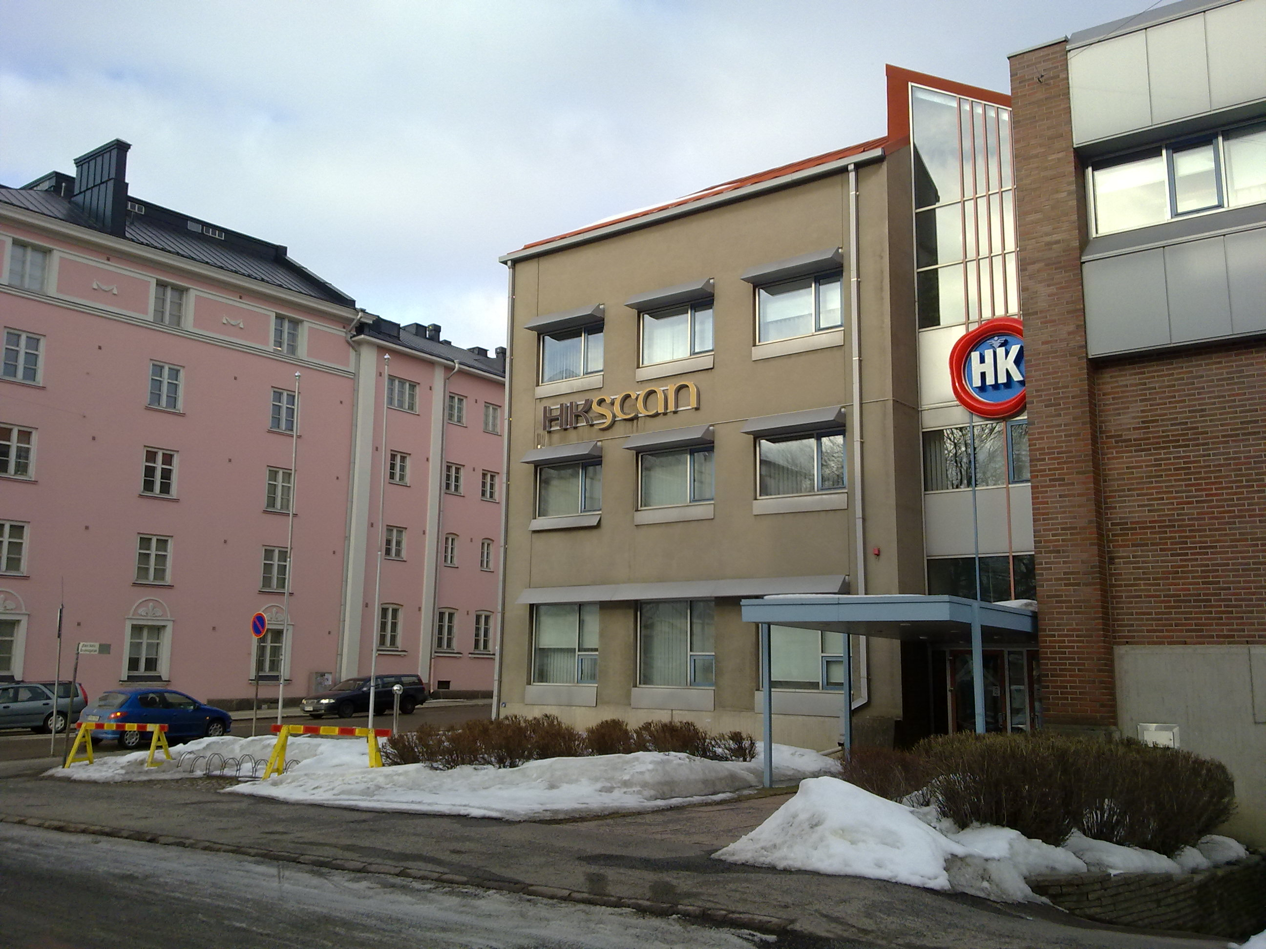 HKScan corporate headquarters in Kupittaa, Turku, Finland.